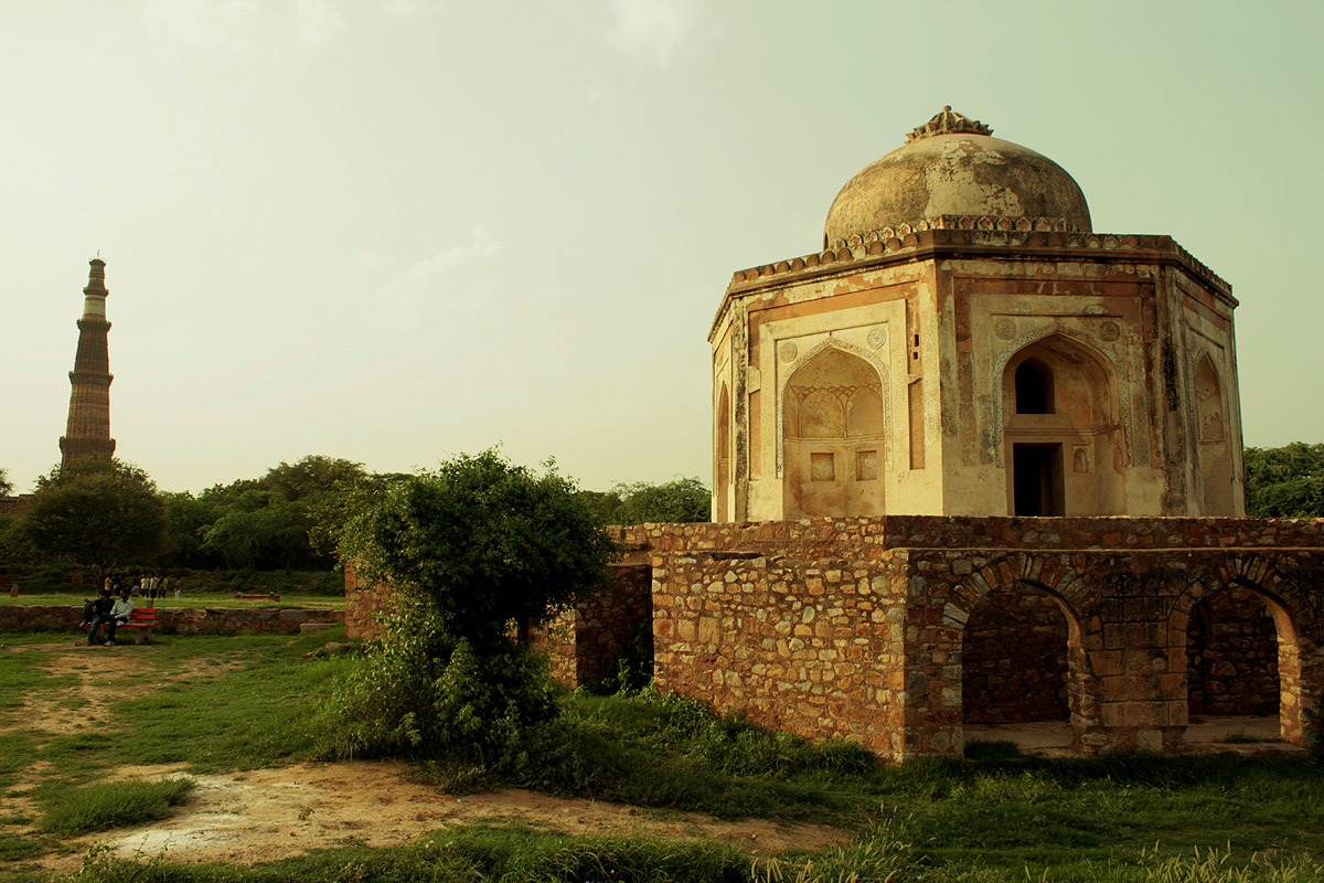 Ruins of Sir Thomas Metcalfe's Dilkusha with Qutub Minar in the background at Mehrauli Archaeological Park, New Delhi